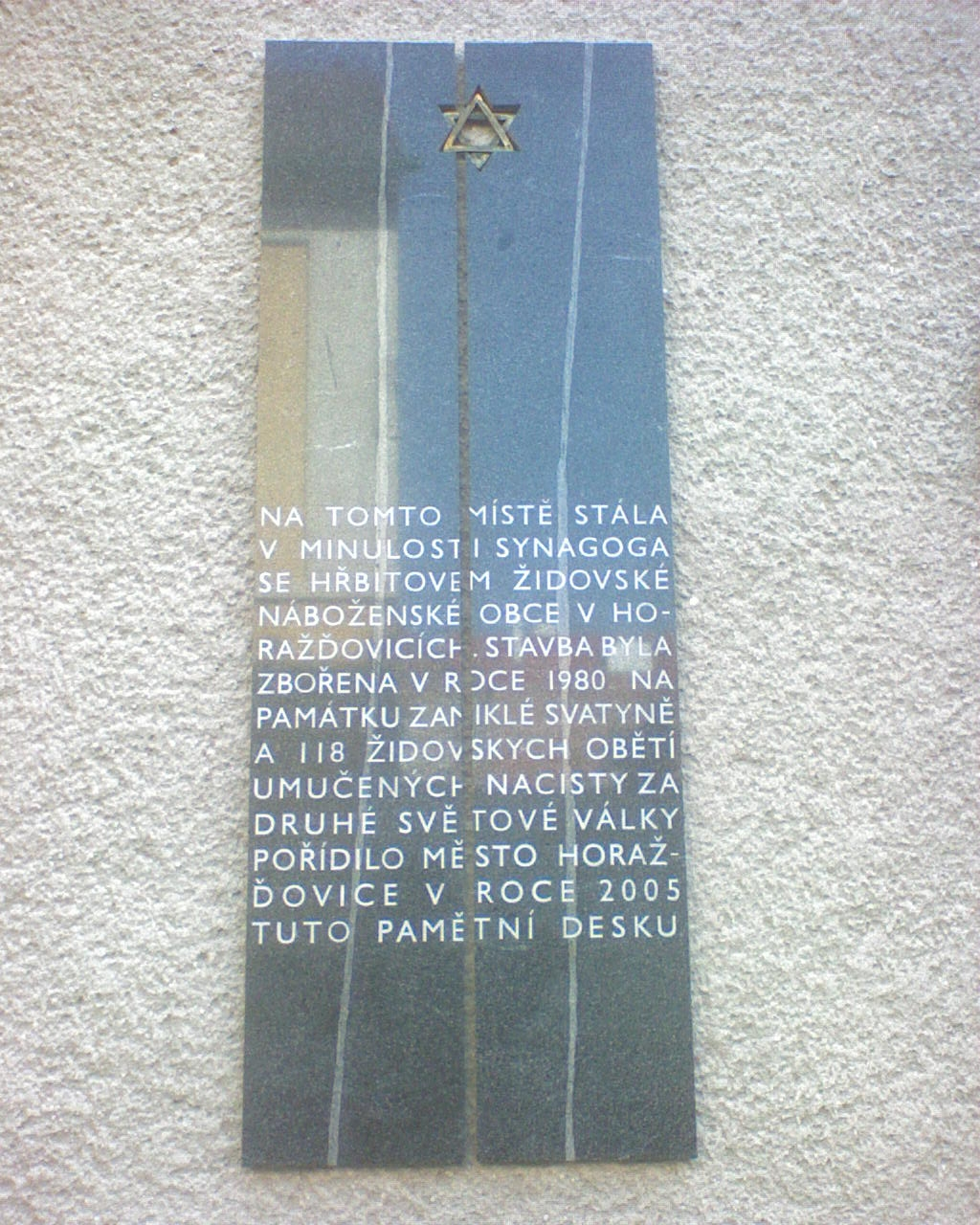 Memorial of the synagogue destroyed during WW2 by nazis.